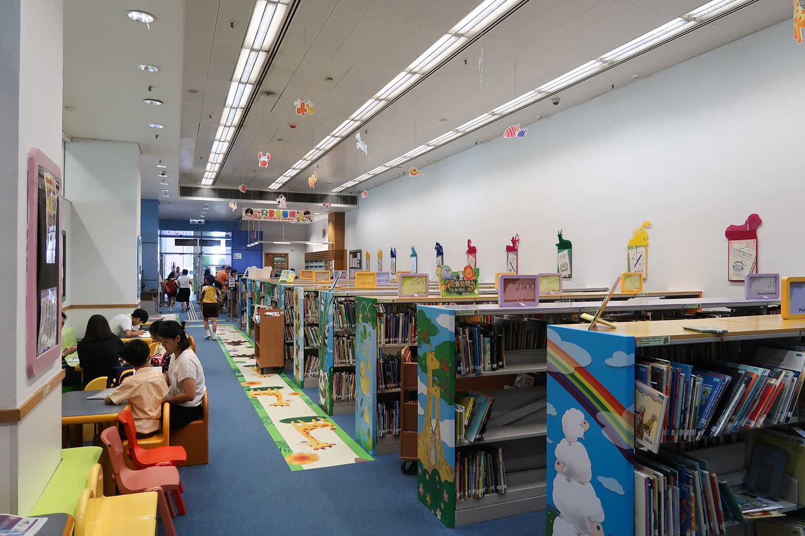 Tai Kok Tsui Public Library Children Library